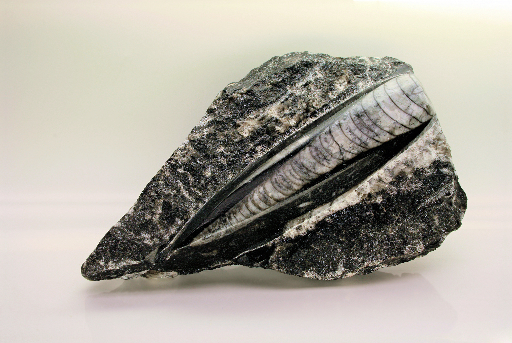 Macro of Silurian Orthoceras Fossil.